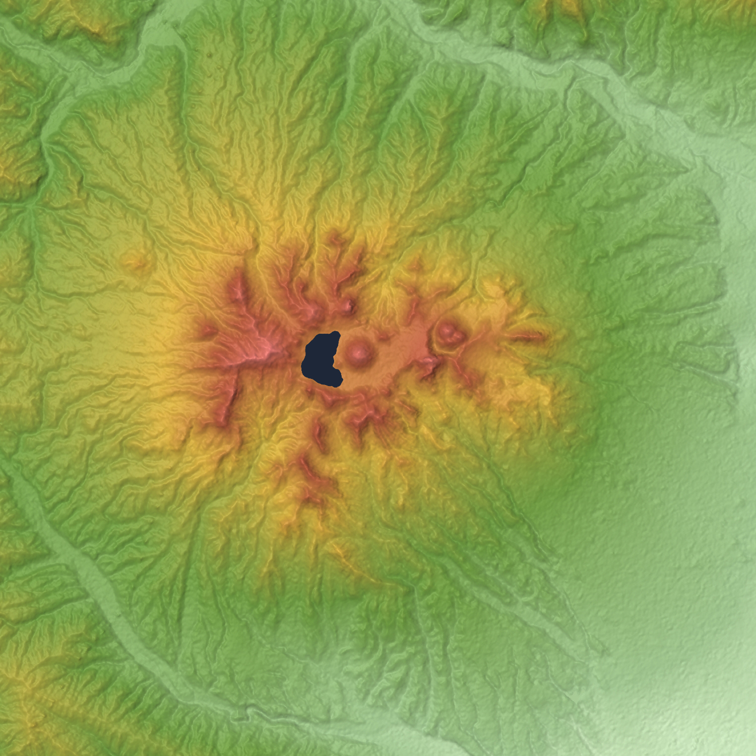 Massif of Mount Haruna in Gunma Prefecture, Honshu, Japan.